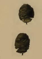 Stainton’s Natural History of the Tineina (1855–1873): Stathmopoda pedella fruits of alder attacked by larva